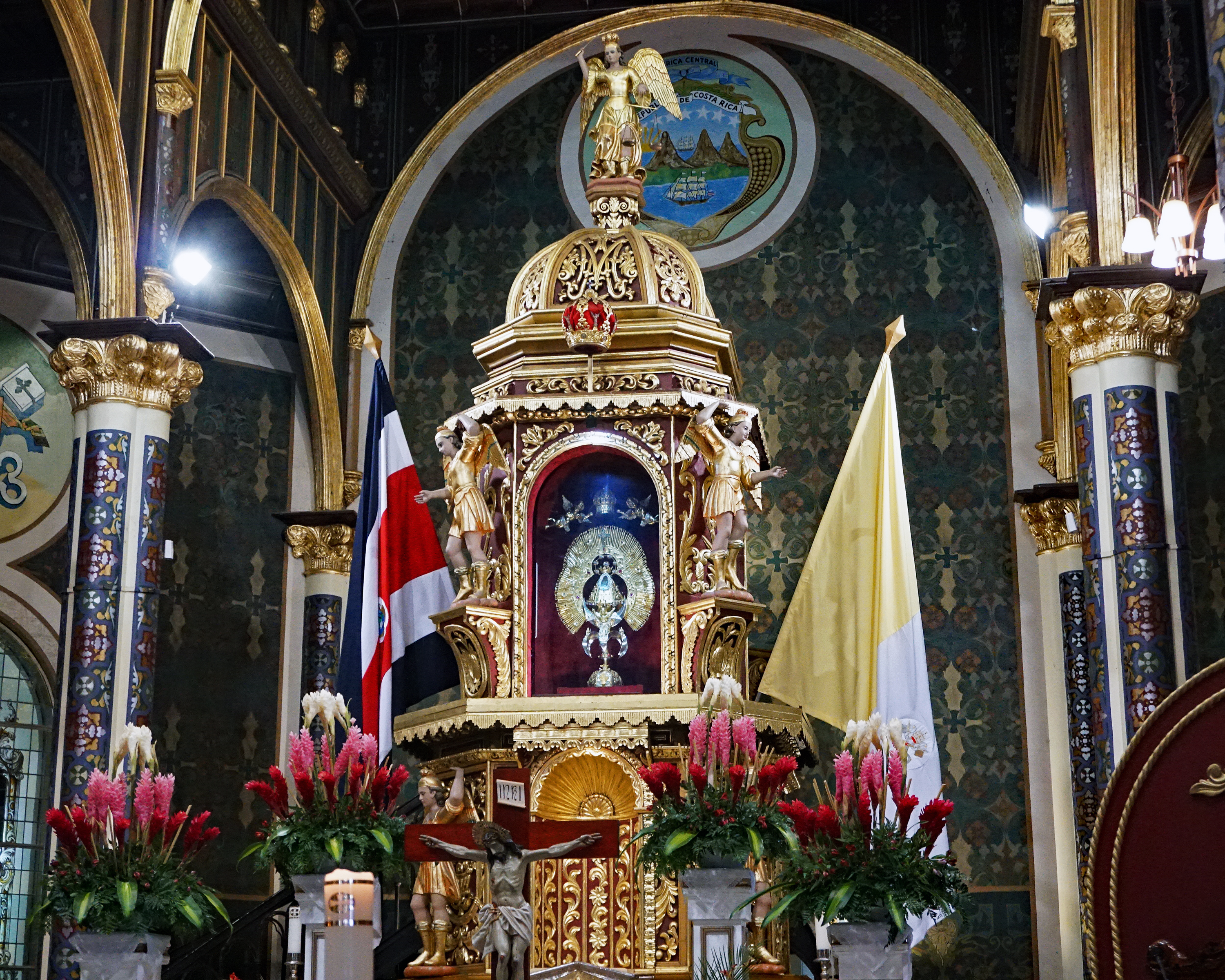 Our Lady of the Angels, Costa Rica's Patron Virgen in display at the main alter of Our Lady of the Angels Basilica, Cartago, Costa Rica.